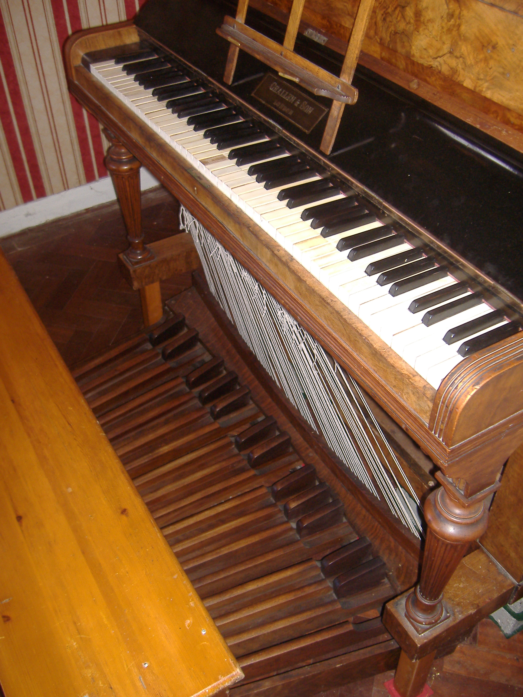 An upright piano with pedal board. The pedals are connected by string to the lower octaves of the piano keyboard, so the bass notes can be played with the feet, like on an organ.